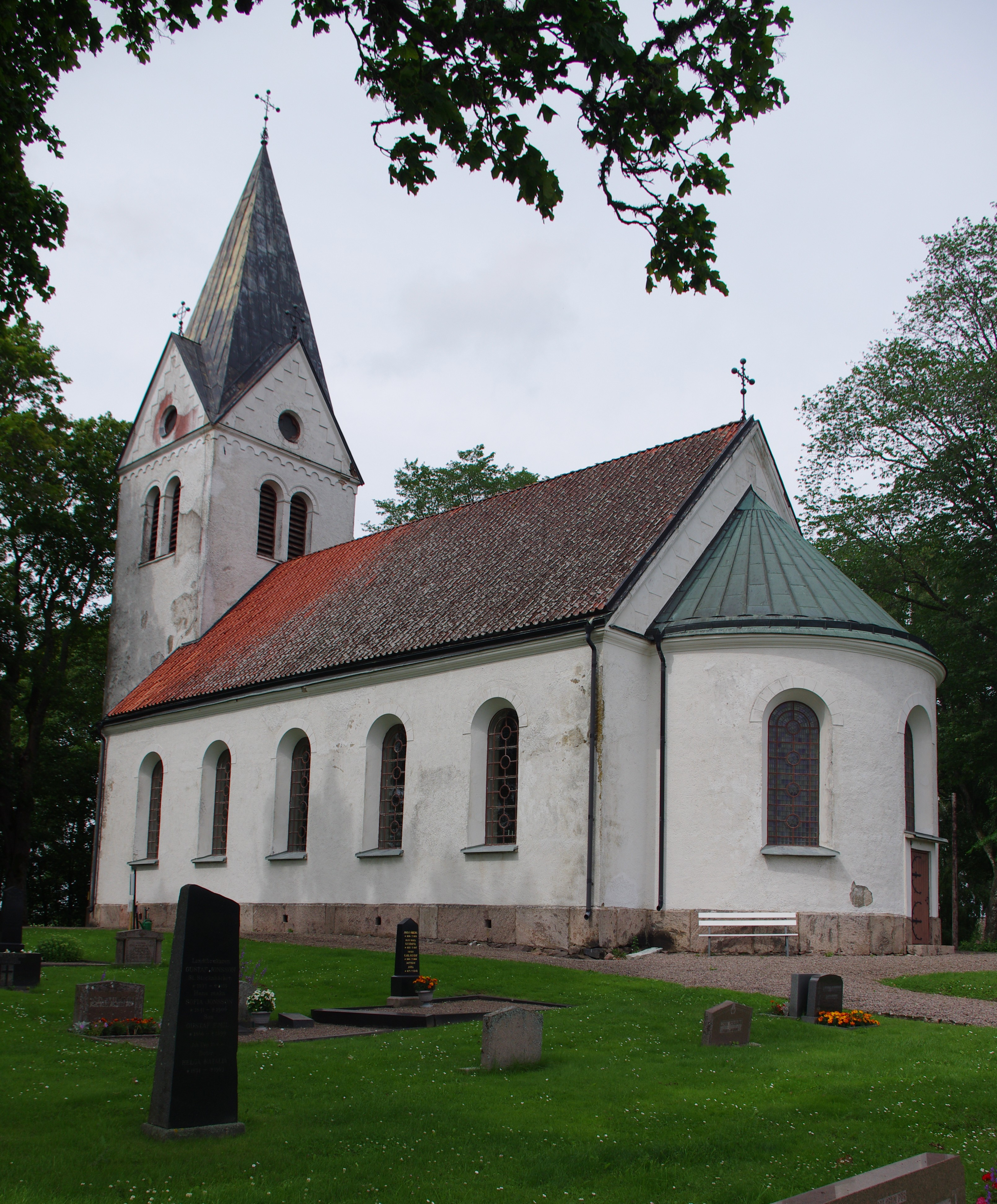 Kymbo church in Västergötland, Sweden.